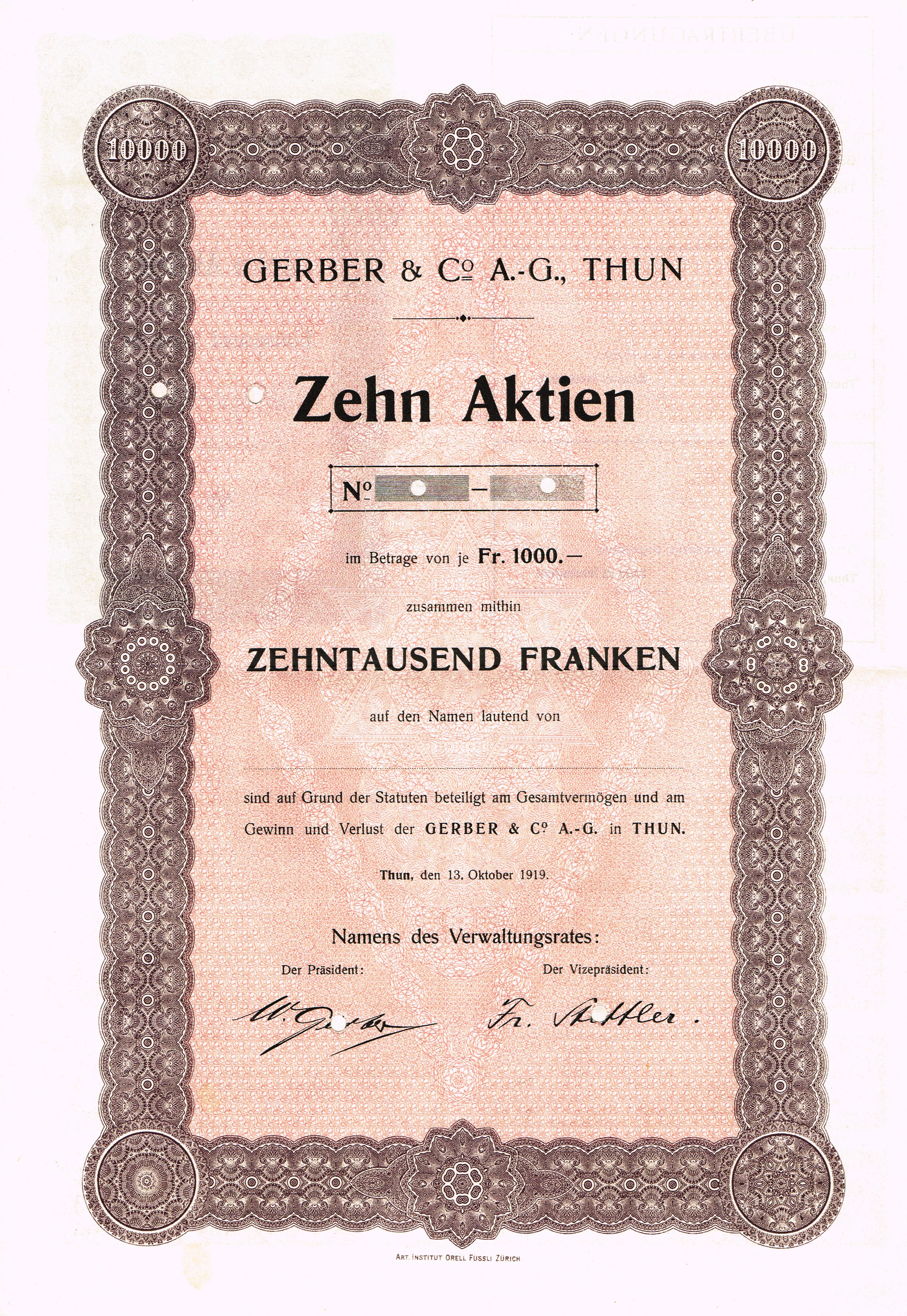 Share of the Gerber & Co. AG, issued 13. Oktober 1919